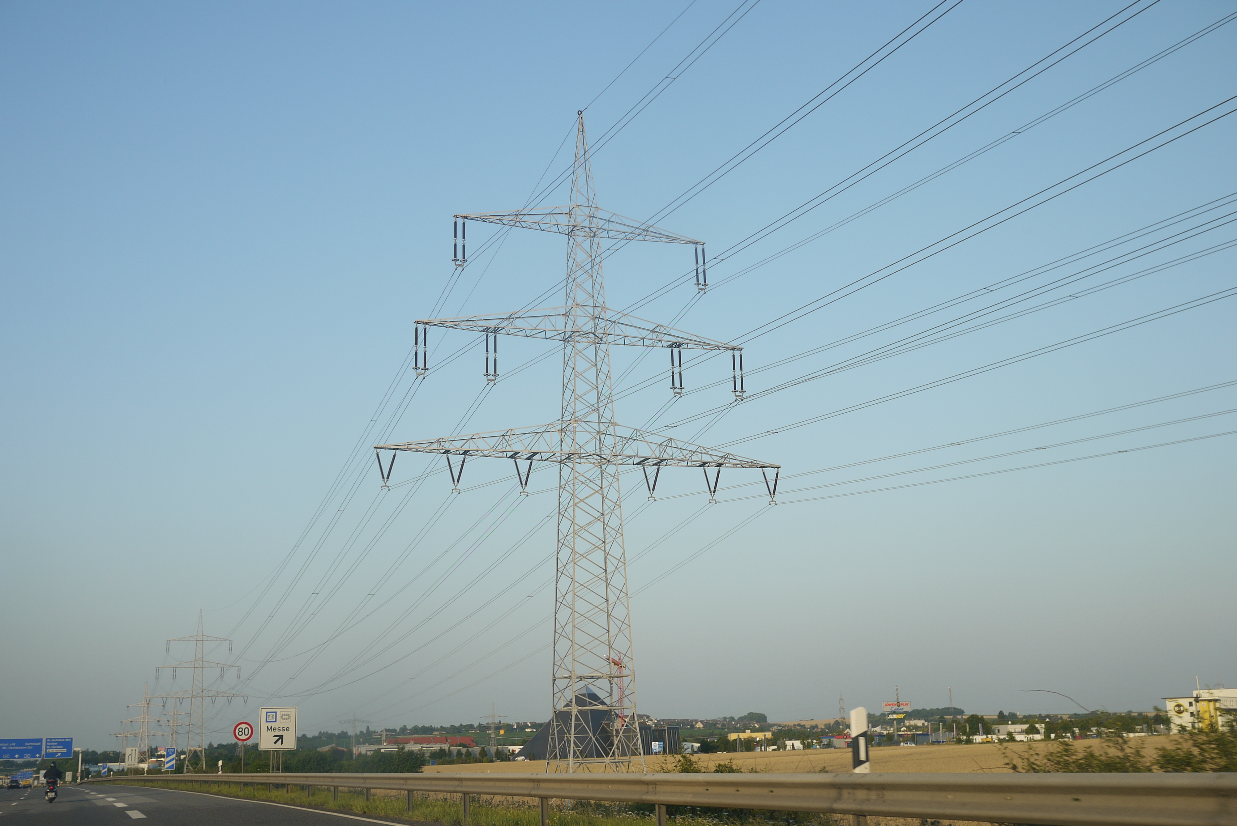 Electric power transmission line in Germany